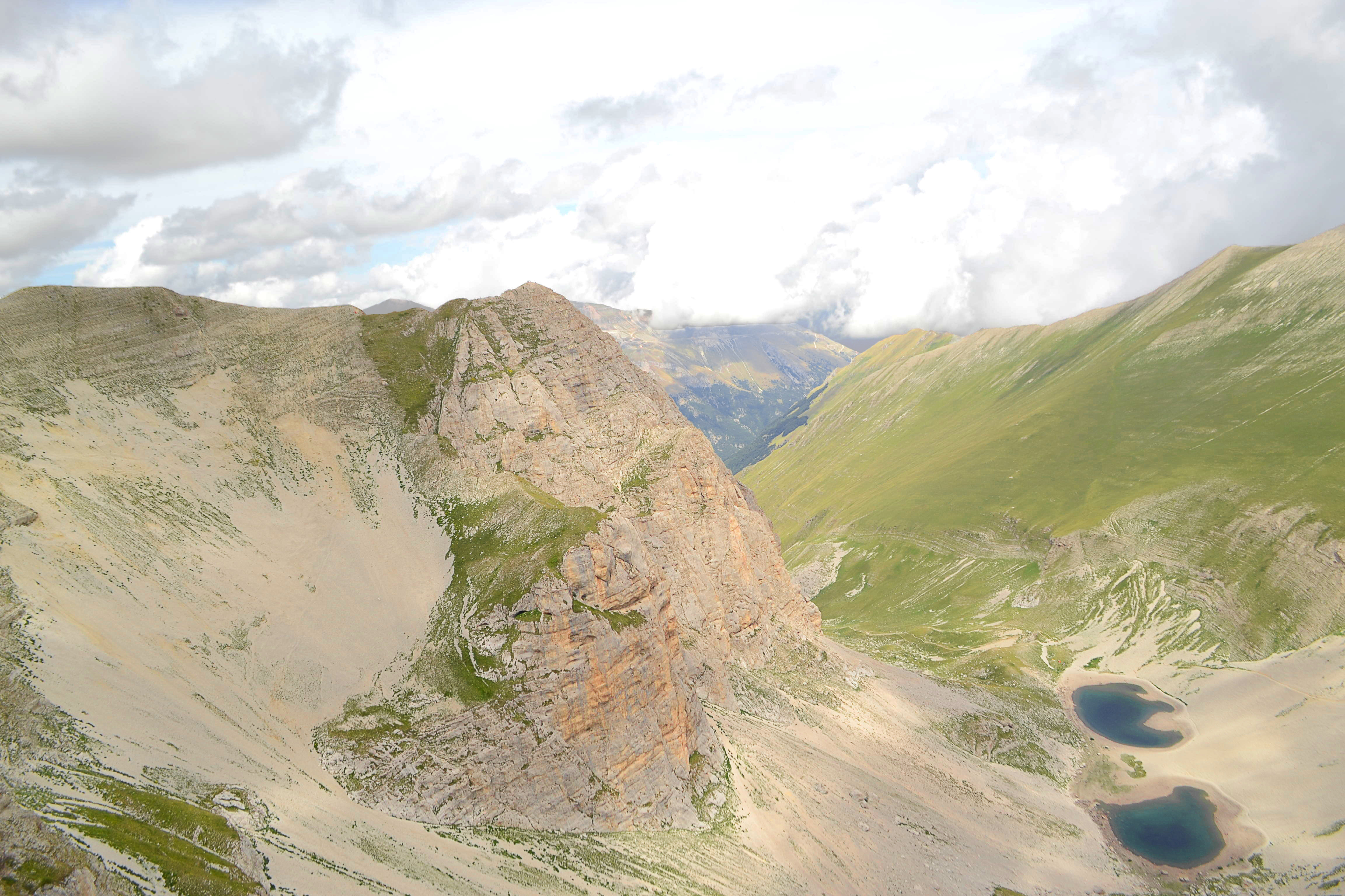 From Cima del Lago